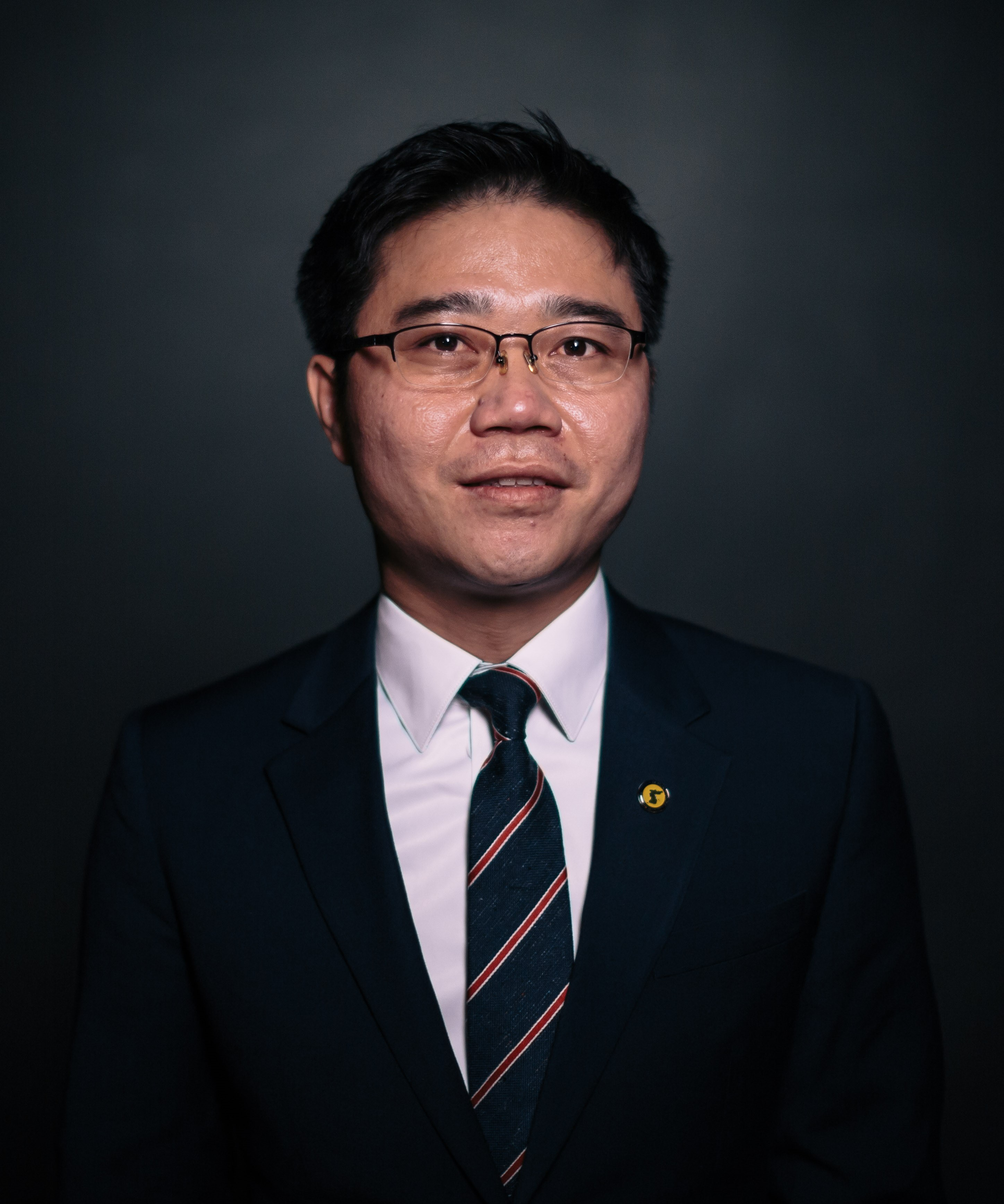 Ji Seong-ho is a North Korean defector who grew up during the country’s grueling famine in the 1990s. In 2006, he escaped to South Korea, where he is now a law student at Dongguk University and the president of Now Action and Unity for Human Rights.